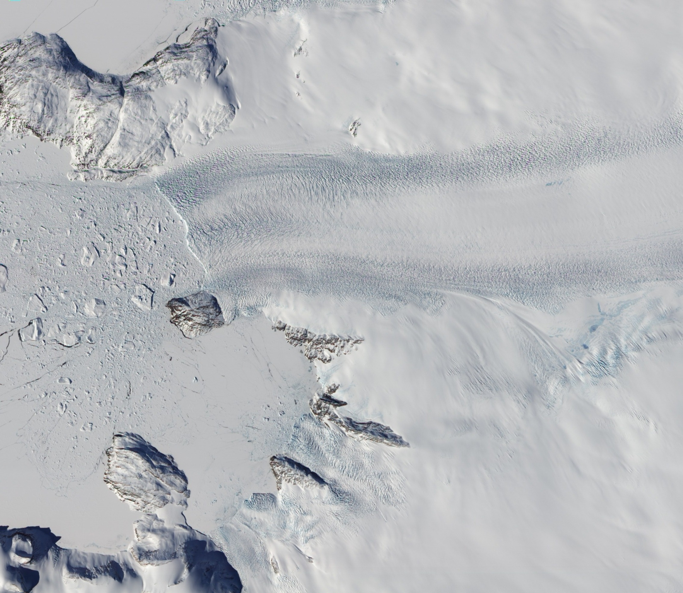 Natural-colour image showing the heavily crevassed terminus of the Kong Oscar Glacier. Kong Oscar Glacier empties into the Melville Bay, which was choked with Baffin Bay sea ice on May 14, 2010, when the image was captured. The smooth surface of the sea ice contrasts with the mixture of small and large icebergs at the mouth of Kong Oscar Glacier.